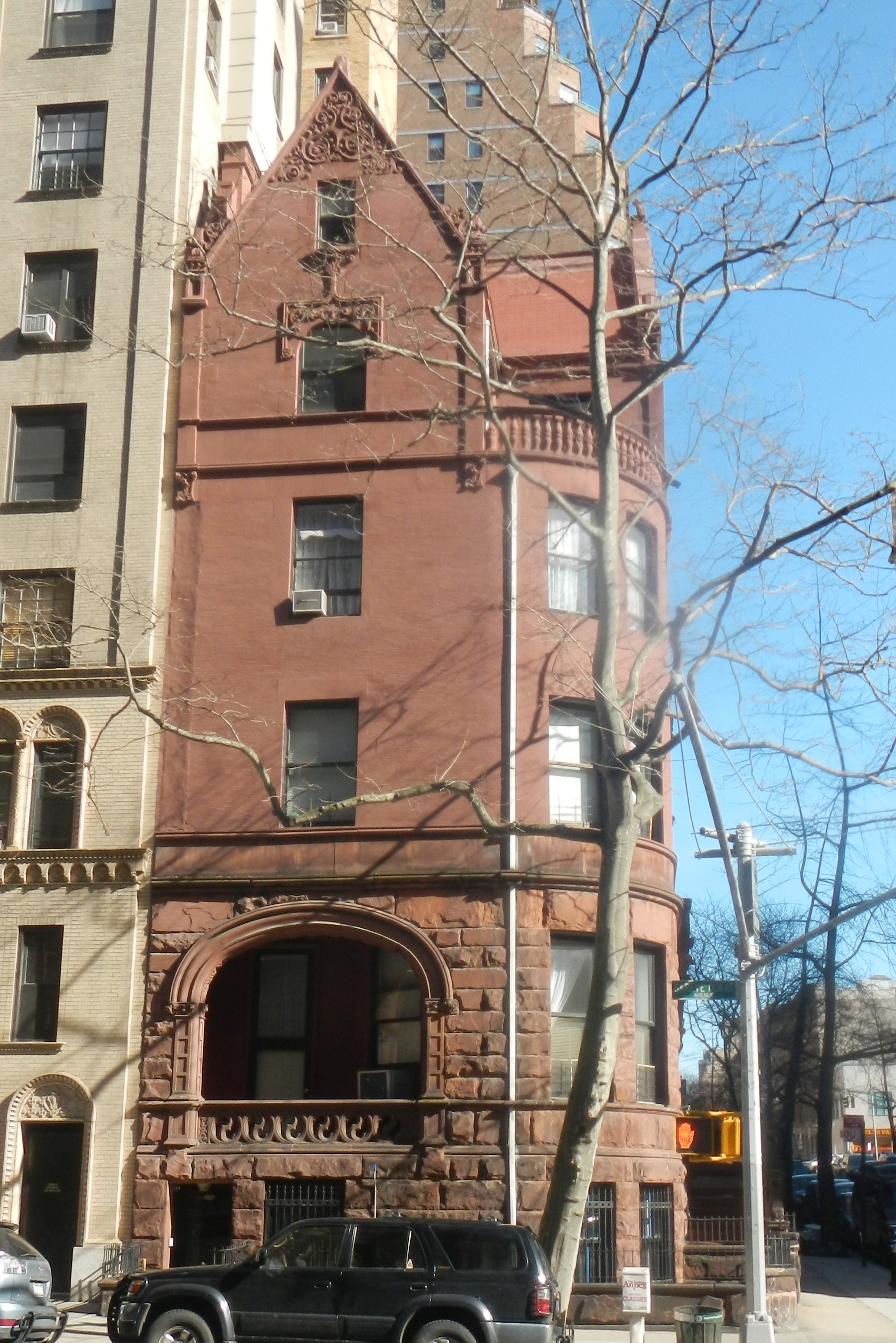 Looking east across West End Avenue on a sunny winter early afternoon. West End Avenue and W. 85th St., Manhattan, New York City.